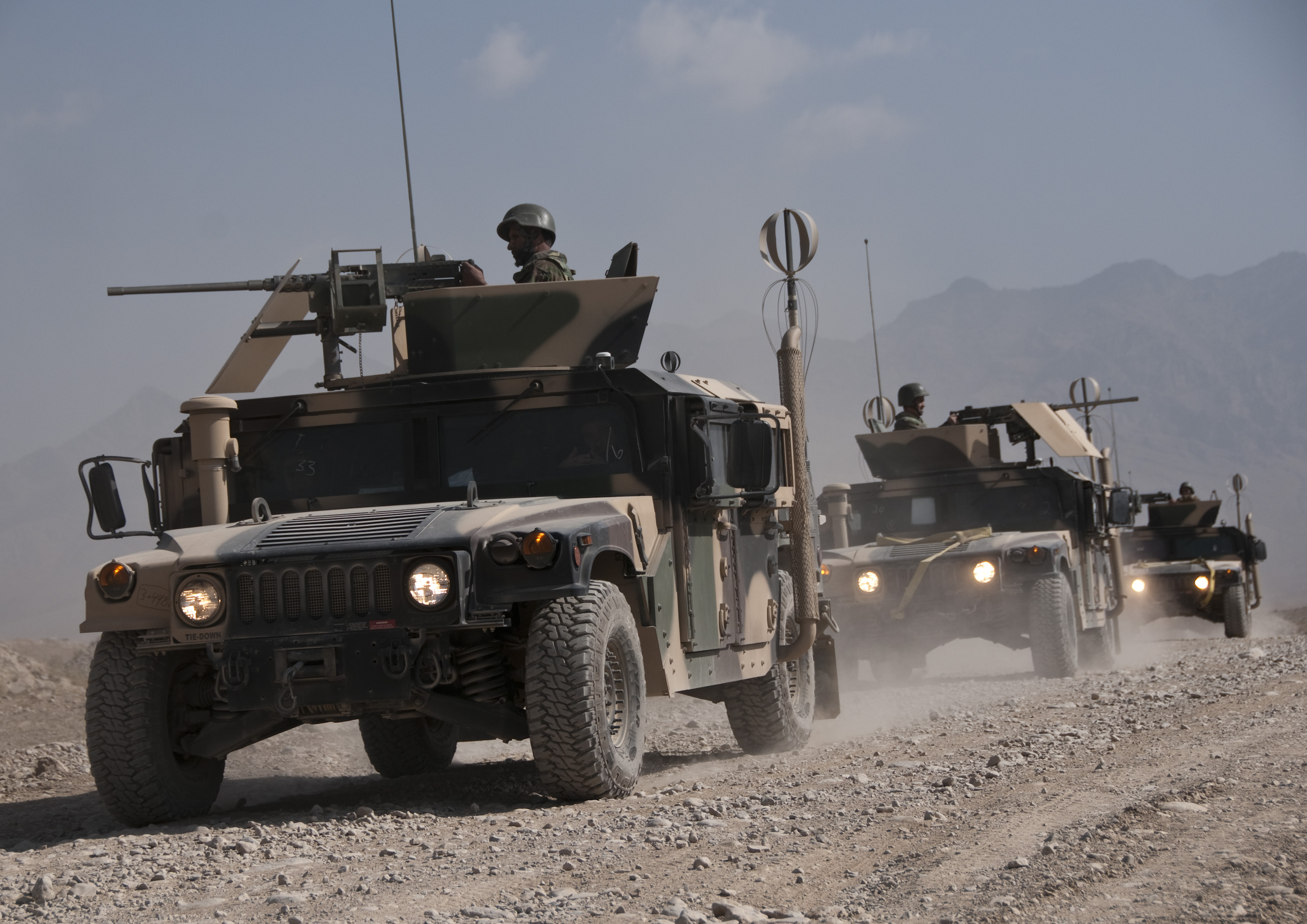 Afghan National Army (ANA) doing a route clearence patrol exercise at the Kabul Militairy Training Centre (KMTC)